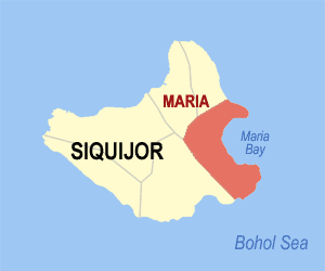 Map of Siquijor showing the location of Maria